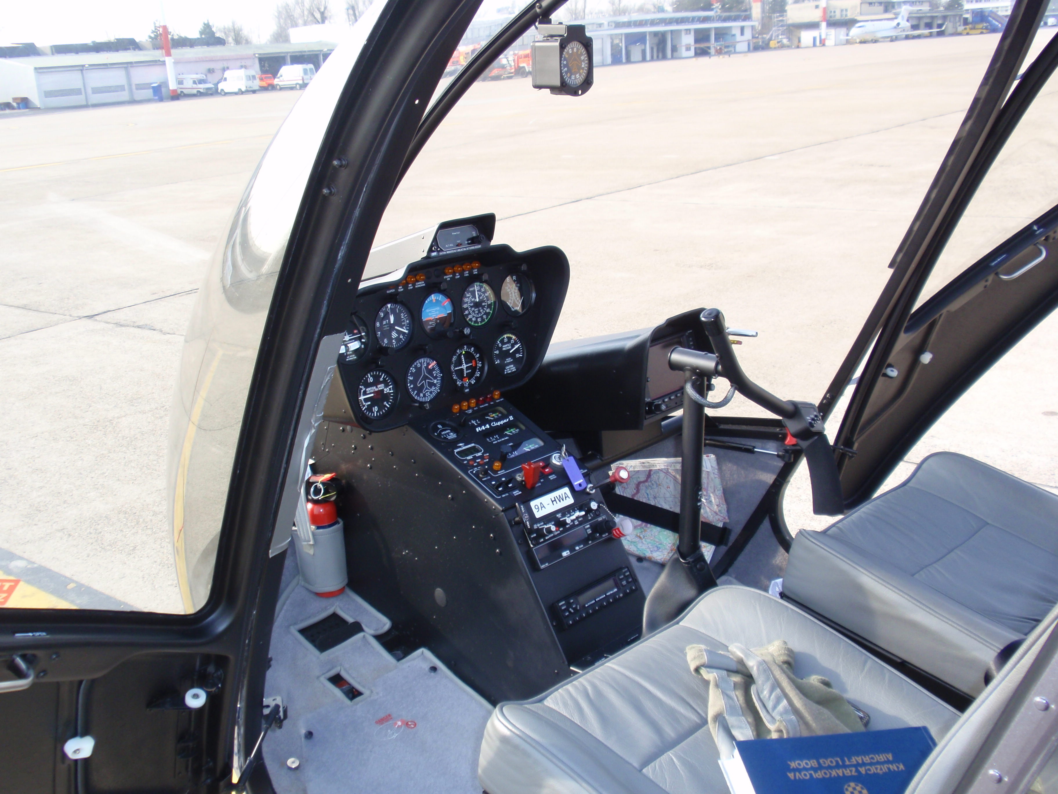 Robinson R44 cockpit (9A-HWA).